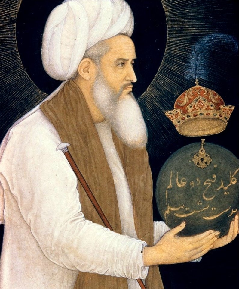 Bichitr. Shaykh Mu'in al-Din Chishti Holding a Globe, detail of miniature from Minto Album, c. 1610-18, India, Chester Beatty Library, Dublin